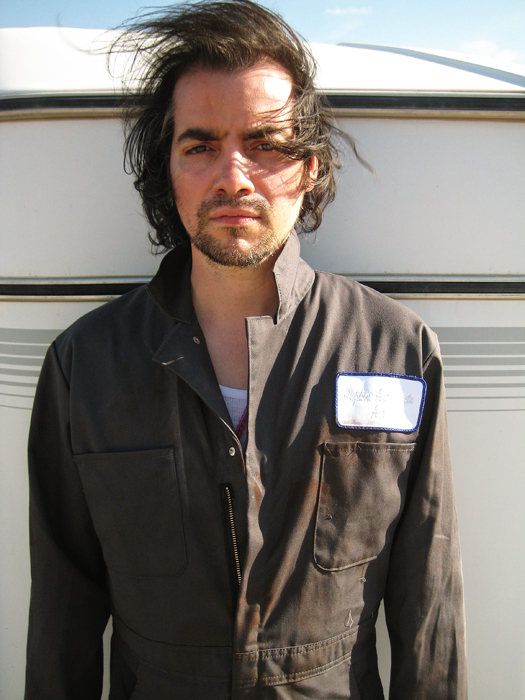 Kevin Corrigan as Anton Pupkin on the set of The Mother of Invention.